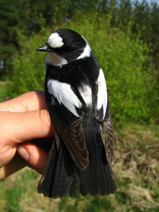 Collared Flycatcher, Ficedula albicollis